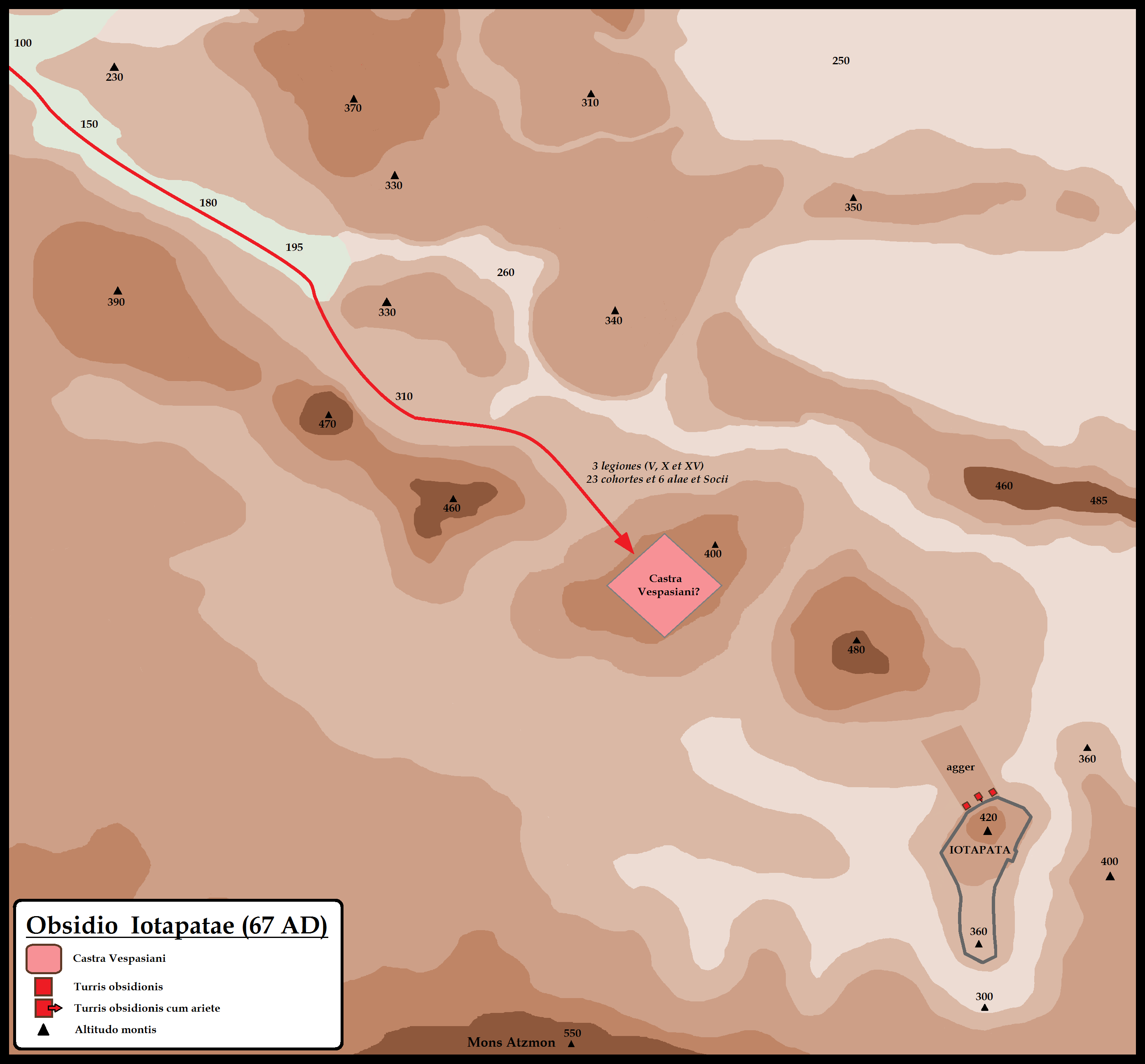 Map of Iotapata's siege (67 AD).